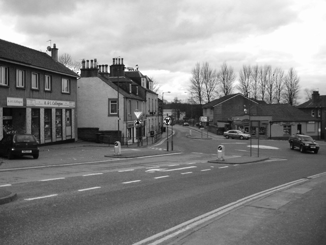 Bonnybridge Town Centre, Scotland